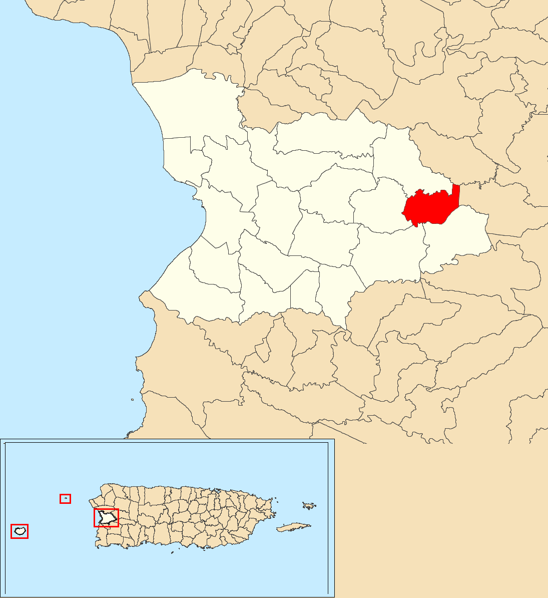 Naranjales, Mayagüez, Puerto Rico locator map